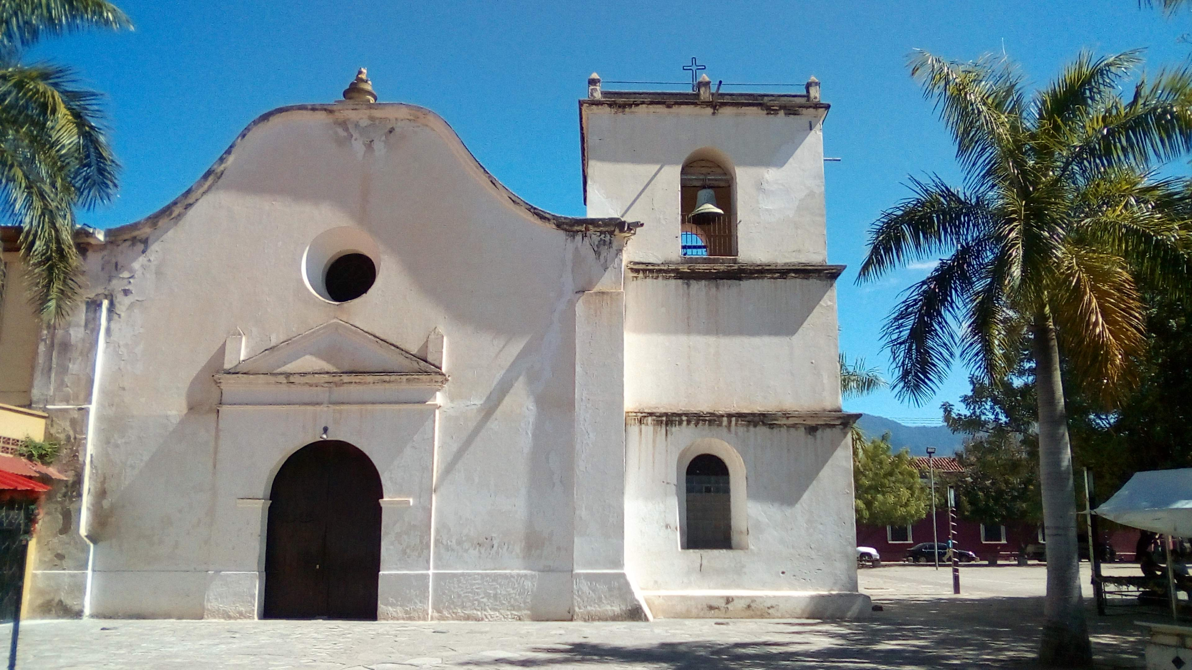 Iglesia de San Francisco